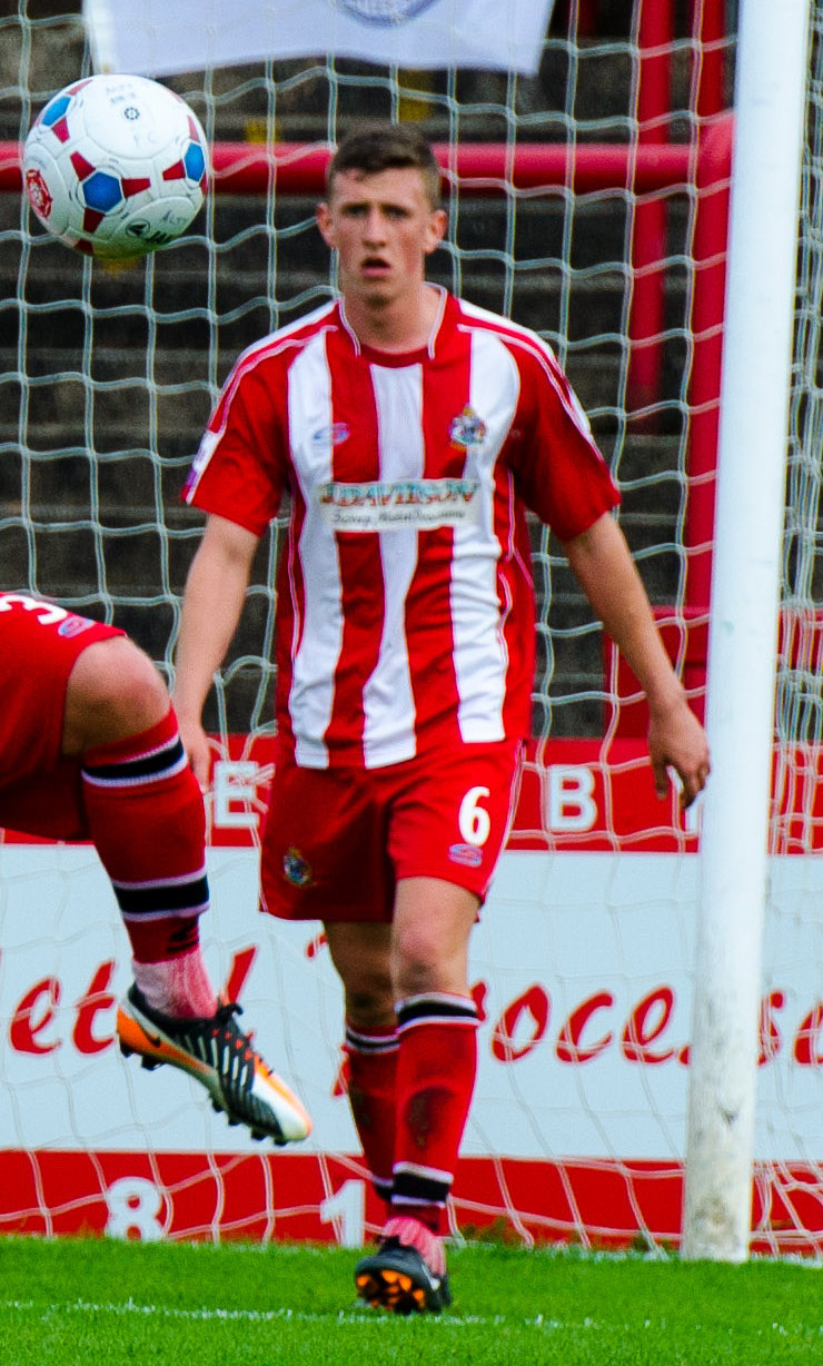 In a game of two halves, the Robins fought from a goal down at half time, to beat the Lions 4-1.